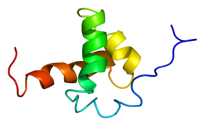 Structure of the NCOR2 protein. Based on PyMOL rendering of PDB 1xc5.